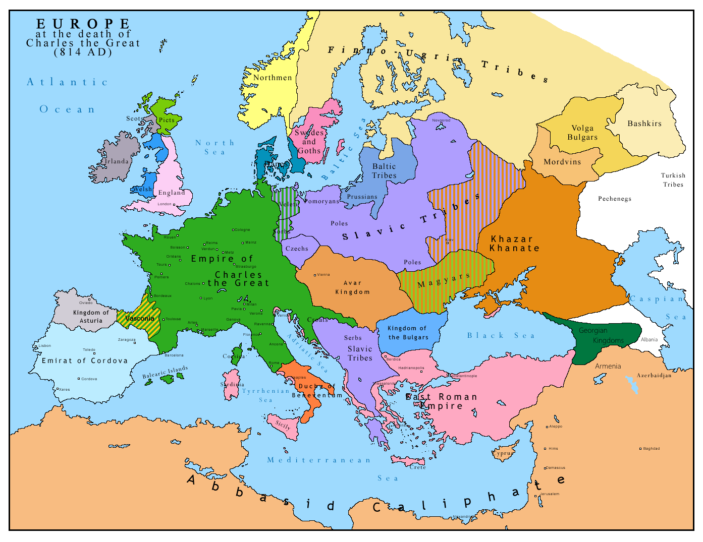 Map of Europe after the death of Charles the Great (814 AD). Original map made by Charles Colbeck, The Public Schools Historical Atlas (1905).